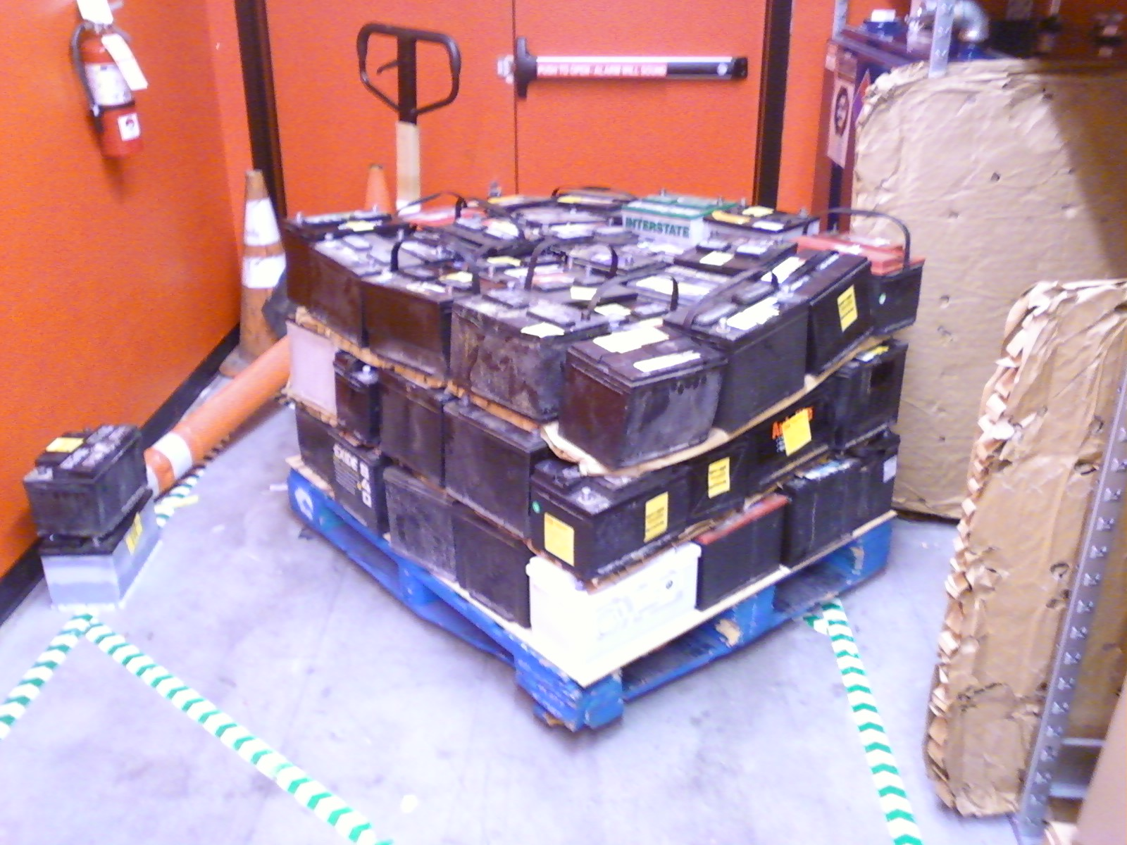 A palletload of used car batteries, collected by Autozone store #4121 (an auto parts retailer) from their customers. This pallet contains approximately 75 batteries, and weighs approximately 2500 pounds. It is in the process of being prepared for interstate truck shipment. It will have a flat sheet of cardboard laid over the top and will be wrapped in plastic cling-film wrap, at which point it will be ready for transport to an Autozone distribution center. Nearly all of the batteries on this pallet were collected as exchanges during the sale of a new battery. 1 or 2 were dropped off by customers in exchange for $5 store credit. One battery was left by a customer for charging and testing, who never returned to pick it up. All the batteries on this pallet failed a load test at the output for which they were rated. The load tests were performed by an Autometer BVA-200s battery tester, after a 50 Amp quick charge (if necessary).